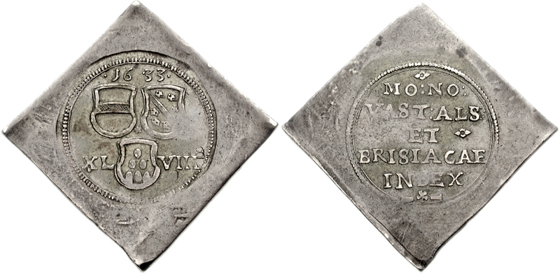 GERMANY, Breisach. AR Achtundvierzig (i.e. 48) Batzen Klippe (16.17 g, 12h). Siege issue. Dated 1633. Coat-of-arms of Austria and Elsass above that of Breisach; all around central rosette; • 16 33 • above; XL and VIII flanking Breisach arms; all within linear and reeded border (elongated rosette)/MO : NO :/VAST : ALS (second S over X):/[(elongated rosette)] E • T (elongated rosette)/BRISIACAE/INDEX •/(rosette flanked by wedges) in seven lines across field; all within linear and pearl border. Brause-Mansfeld, pl. IV, 9; Mailliet 3.3. Good VF, toned. Trace of uncertain hallmark on obverse. Ex J.D. Lasser Collection; Argenor (25 April 2002), lot 668. "In 1633, the French besieged the strategically important fortress of Breisach. In October of that year, the combined forces of the Spanish, under the Duke of Feria, and the Bavarians successfully lifted the siege."